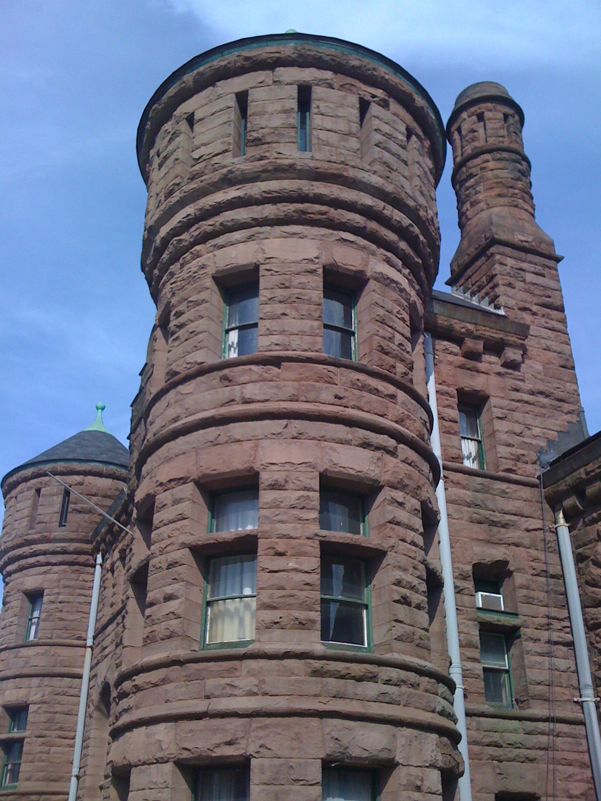 Detail of the Cornwallis Street facade, Halifax Armoury